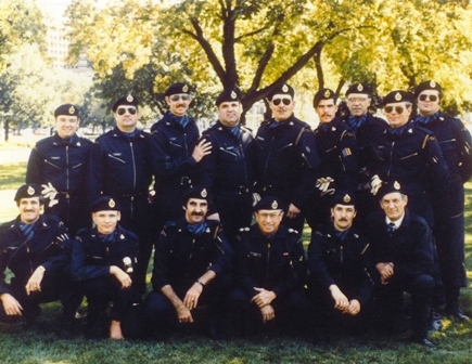 Original Ferret Club Crews, Ontario Regiment (RCAC) Museum, Oshawa, 1981